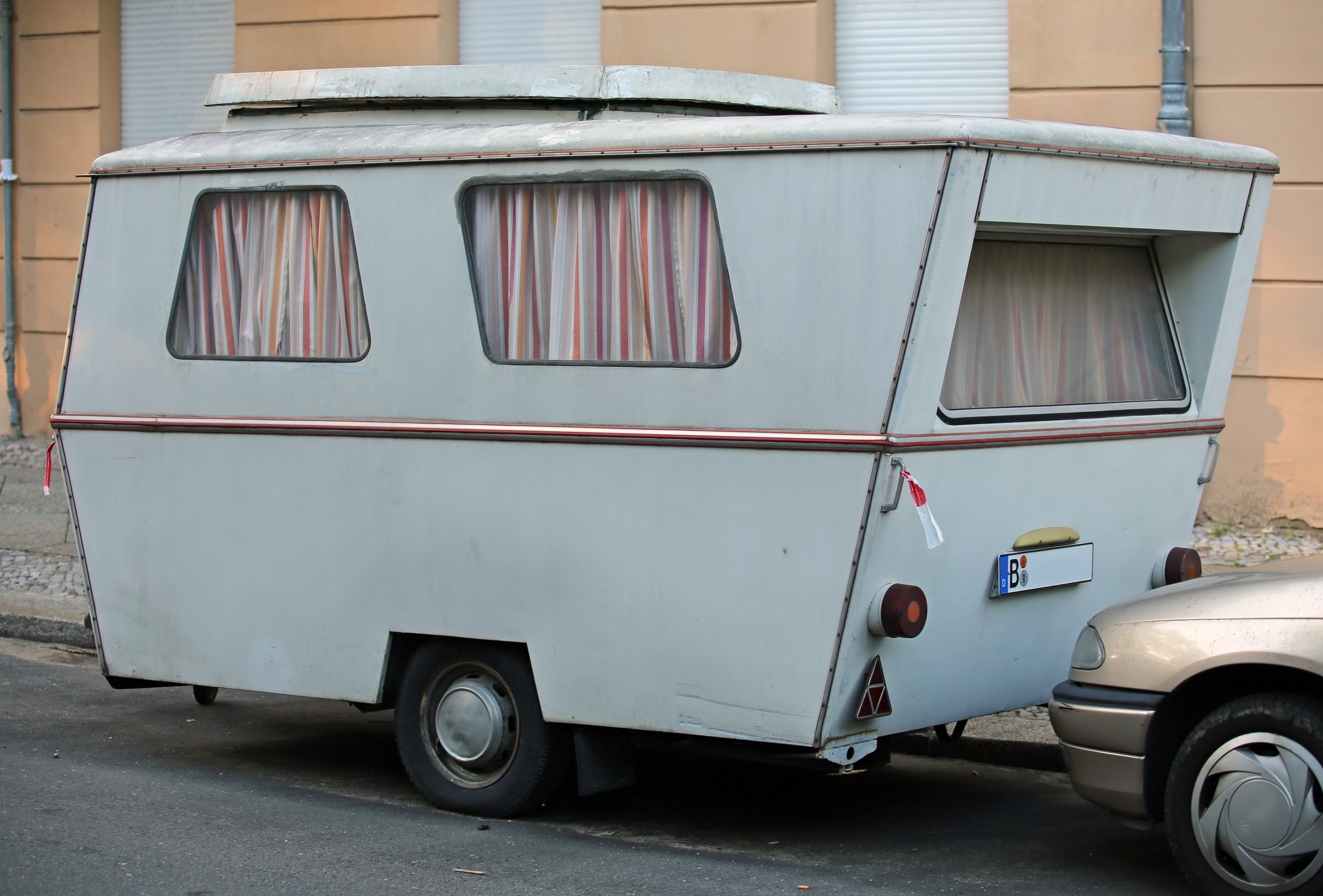 1970s Großfahner Friedel EW 500 caravan. These were built on a fairly small scale in East Germany from 1967 until 1990, in a total of about 1000 examples.